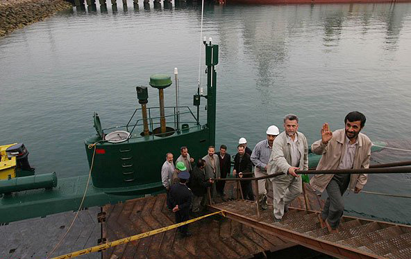 Ahmadinejad inspects Ghadir Mini Submarine.